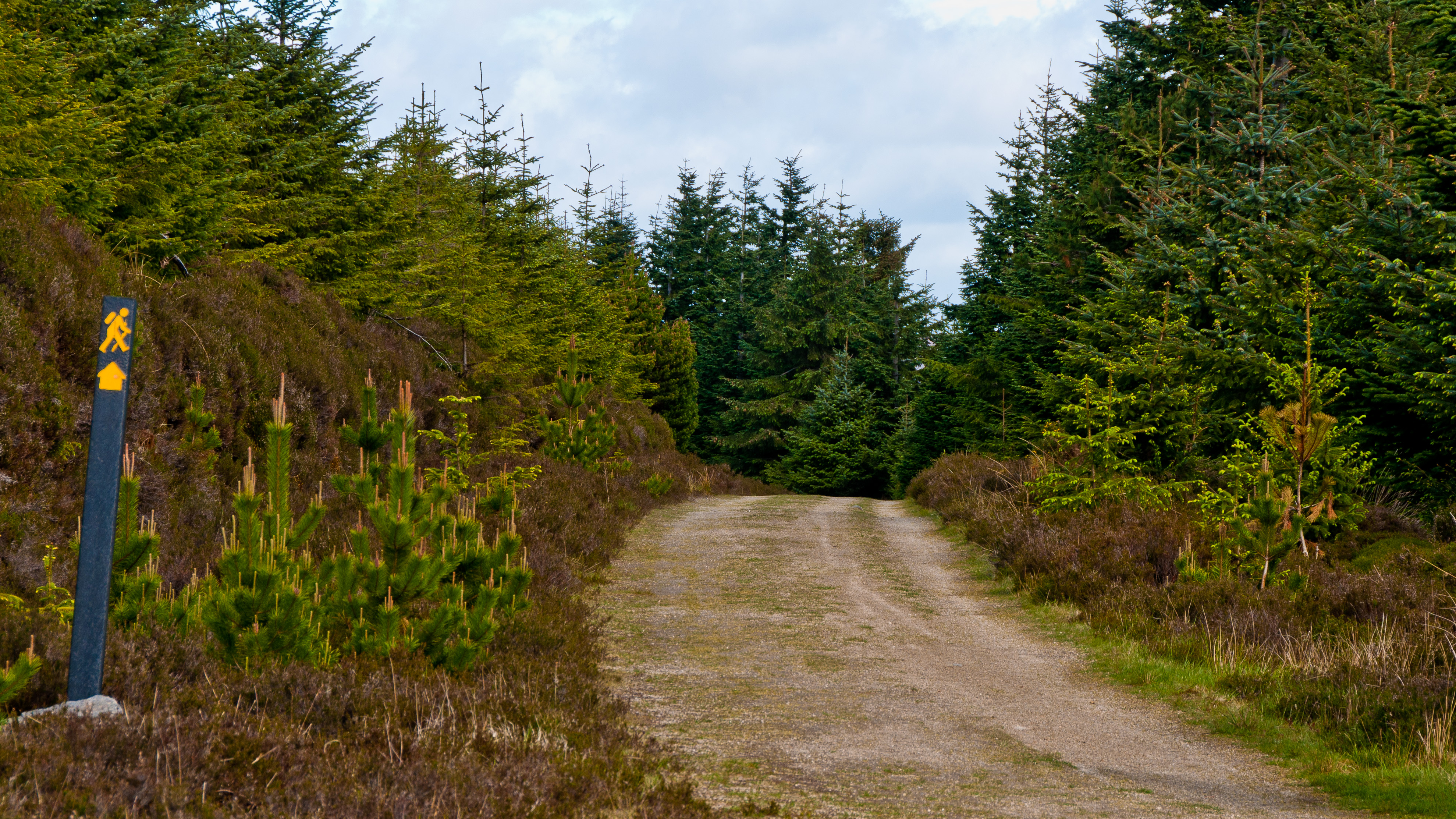 Forest road through a conifer plantation on the Wicklow Way National Waymarked Trail in Glencullen Forest, County Dublin, Ireland. The National Waymarked Trails in Ireland are often criticised for their monotonous paths through state-owned forestry plantations